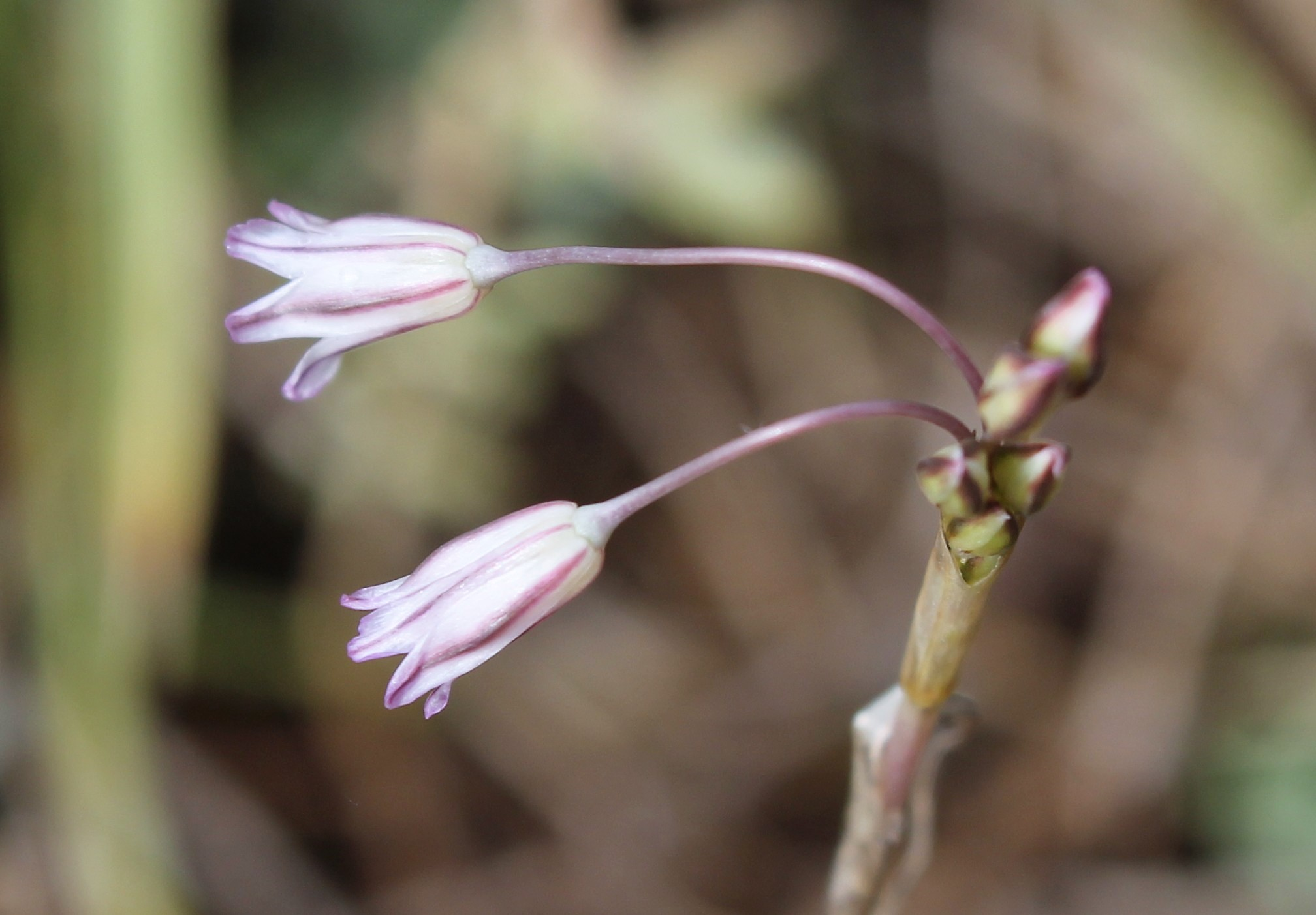 Allium peroninianum tepals